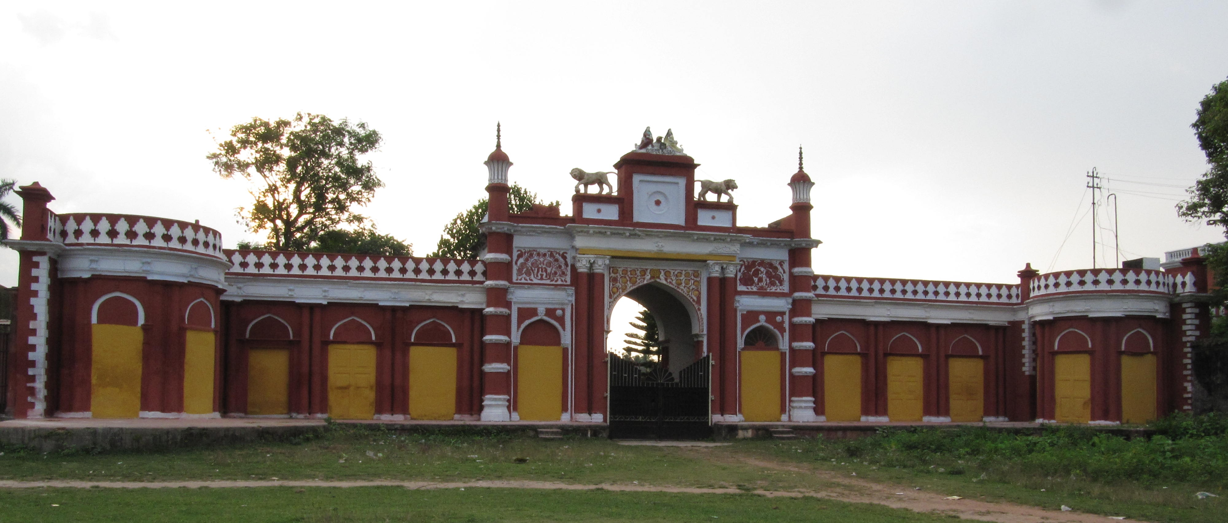 External view of Krishnanagar palace in Nadia, West Bengal, India